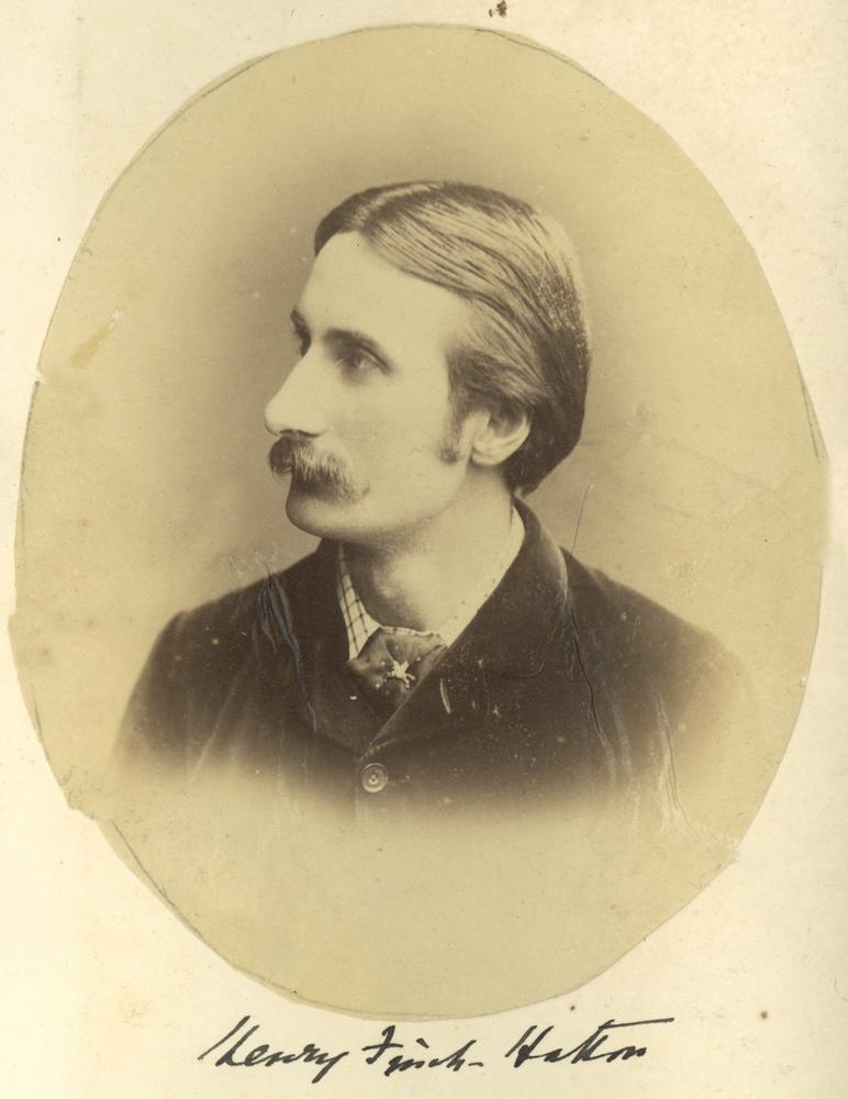 Henry Stormont Finch Hatton, 13th Earl of Winchilsea and 8th Earl of Nottingham, circa 1875 in Queensland